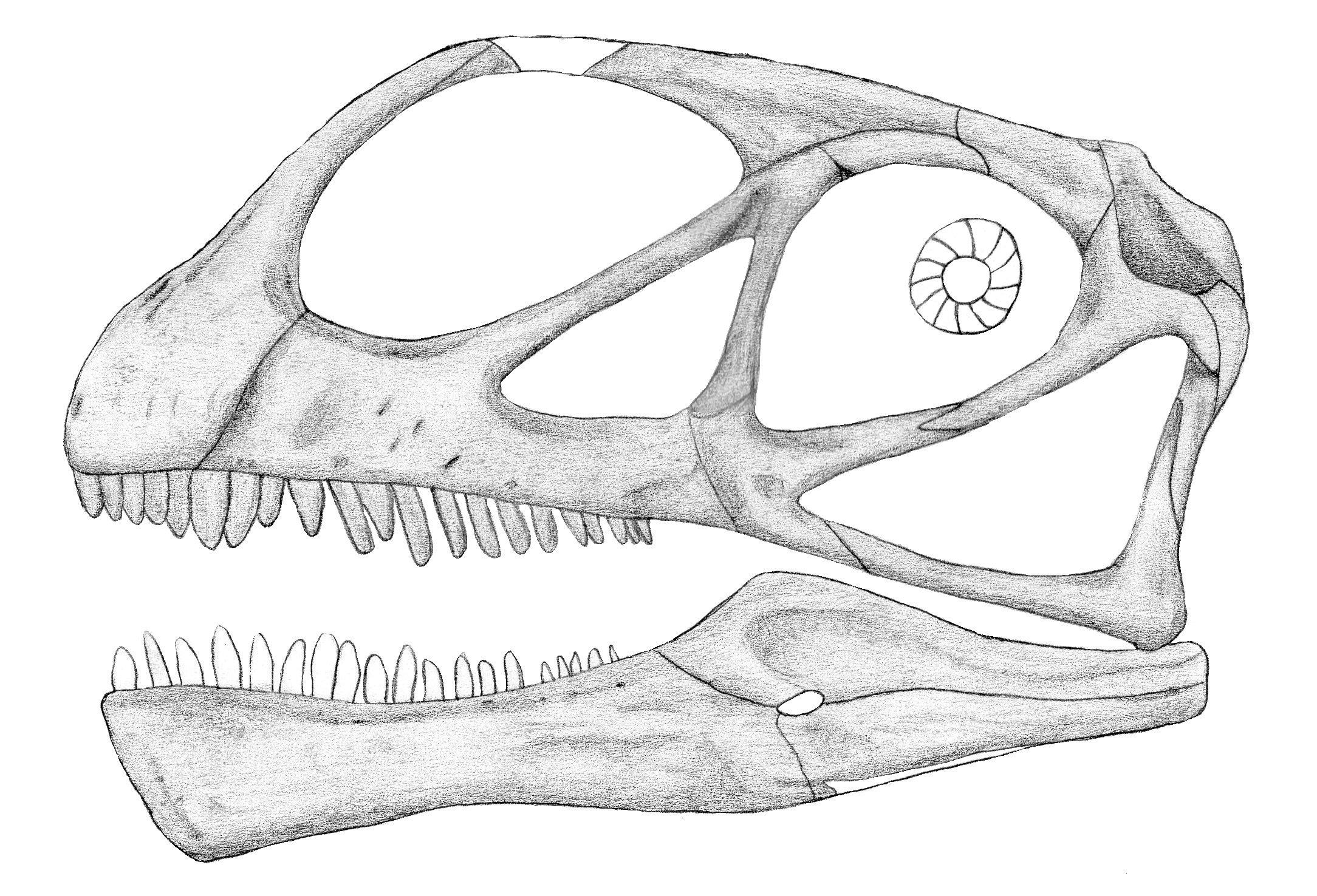 Illustration of the skull known remains abrosaurus with gray